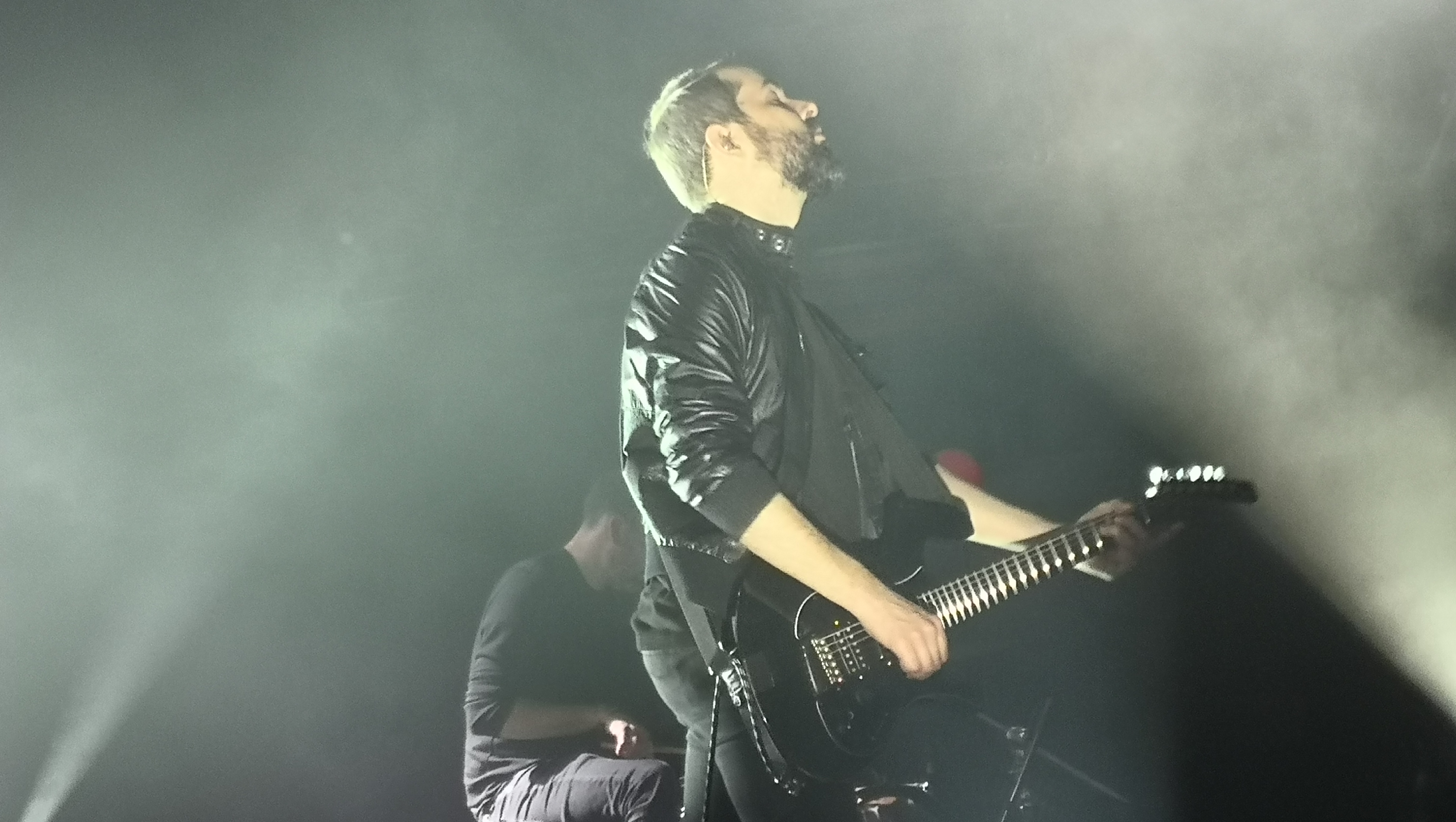 Greg Gonzalez playing at a Cigarettes After Sex concert in Sala Apolo (Barcelona) 11/11/2019